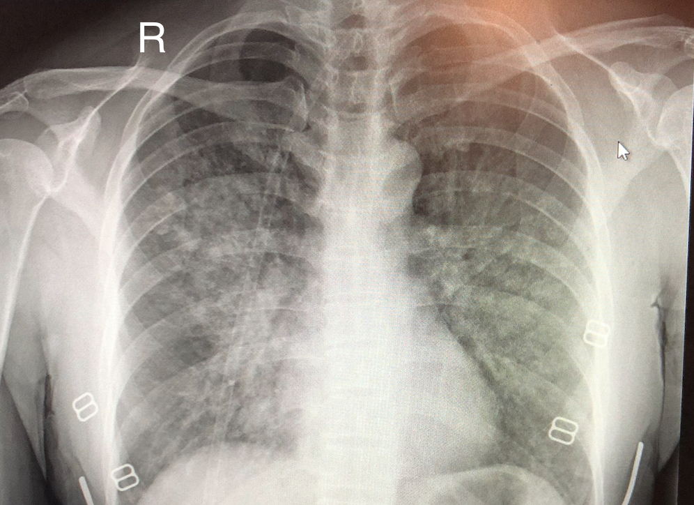 Plain chest x-ray (radiograph) of a patient diagnosed with HAPE. There are patchy infiltrates throughout the lung tissue, with predominant changes in the right middle lobe/right central hemithorax.